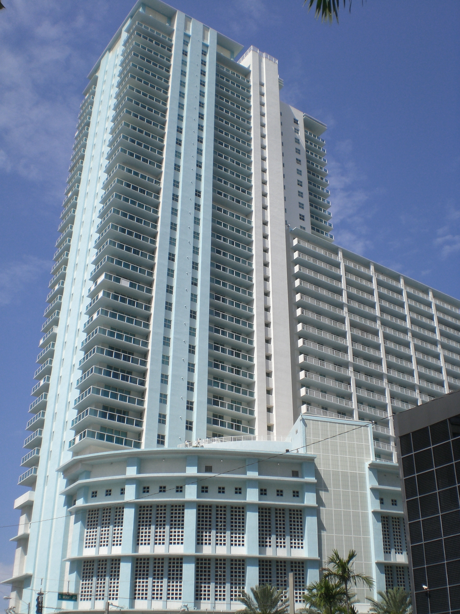 Digital photo taken by Marc Averette. The Vue at Brickell residential tower in downtown Miami, Florida.